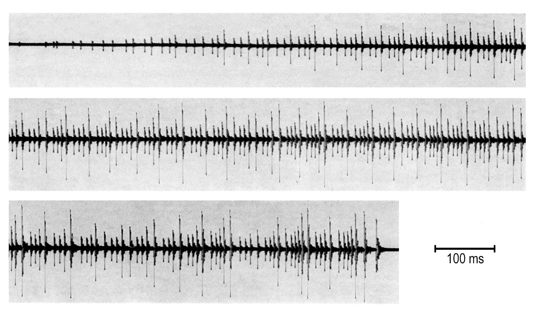 Oscillogram of a mating call from Pelophylax bergeri recorded on tape at Lesina, Province Foggia, at a water temperature of 17.9° Celsius consisting of 58 pulse groups. Because of the length, the oscillogram is divided into three sections.